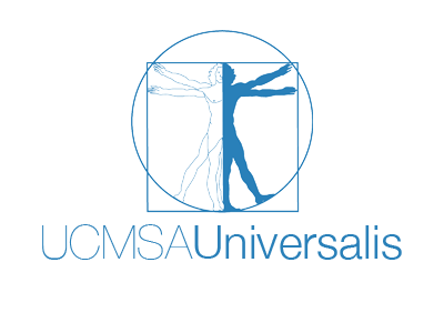 An unofficial version of the UCMSA Universalos logo, from September 2013.